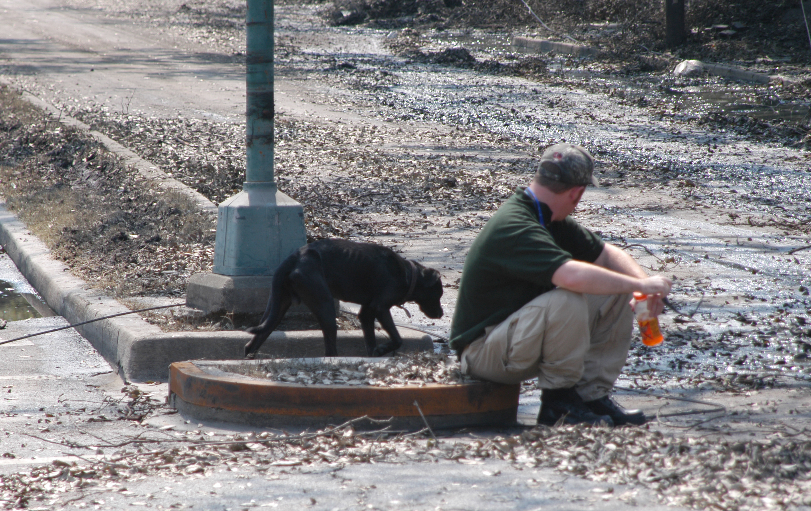 New Orleans, September 15, 2005 - A dog, seeking affection, food and water, slowly approaches a rescue worker. Thousands of animals were left to wander the streets after being unwillingly left behind by their owners when the city was evacuated because of Hurricane Katrina.